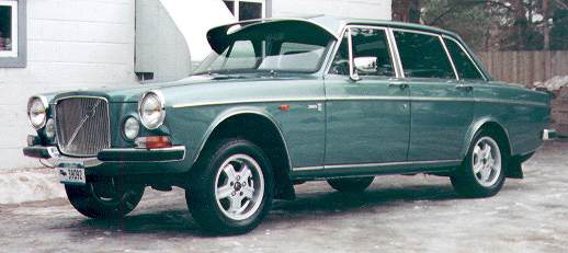 1971 Volvo 164 with Australian-market accessory exterior sunvisor.